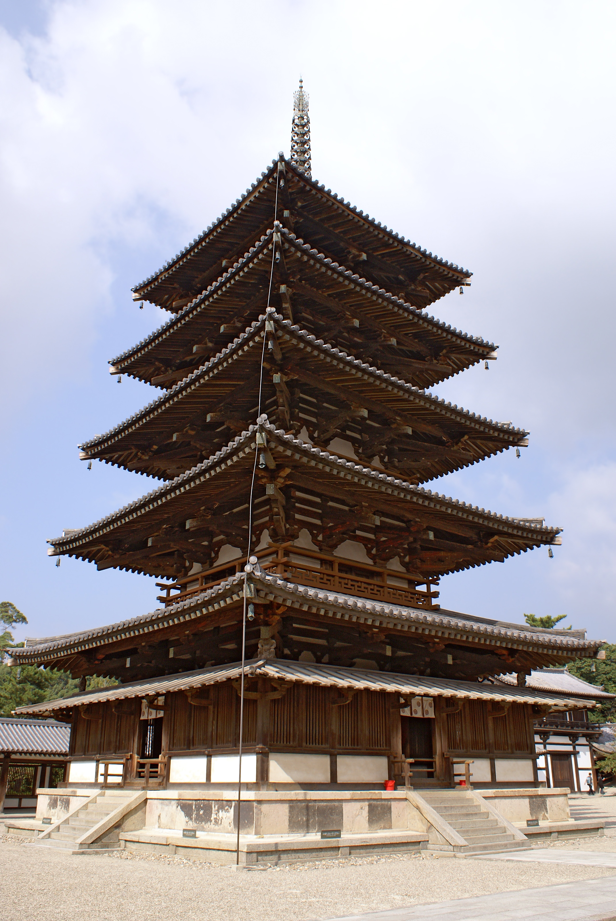 Five-storied Pagoda of Hōryū-ji is a Japan's National Treasure. Hōryū-ji is a Buddhist temple in Ikaruga, Nara prefecture, Japan. It was registered as part of the UNESCO World Heritage Site "Buddhist Monuments in the Hōryū-ji Area".